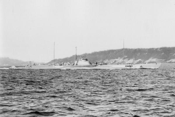 Japanese Submarine "I-164" (KAIDAI-class type-IV, ex-I-64, renamed in 1942) off Kure for trial.